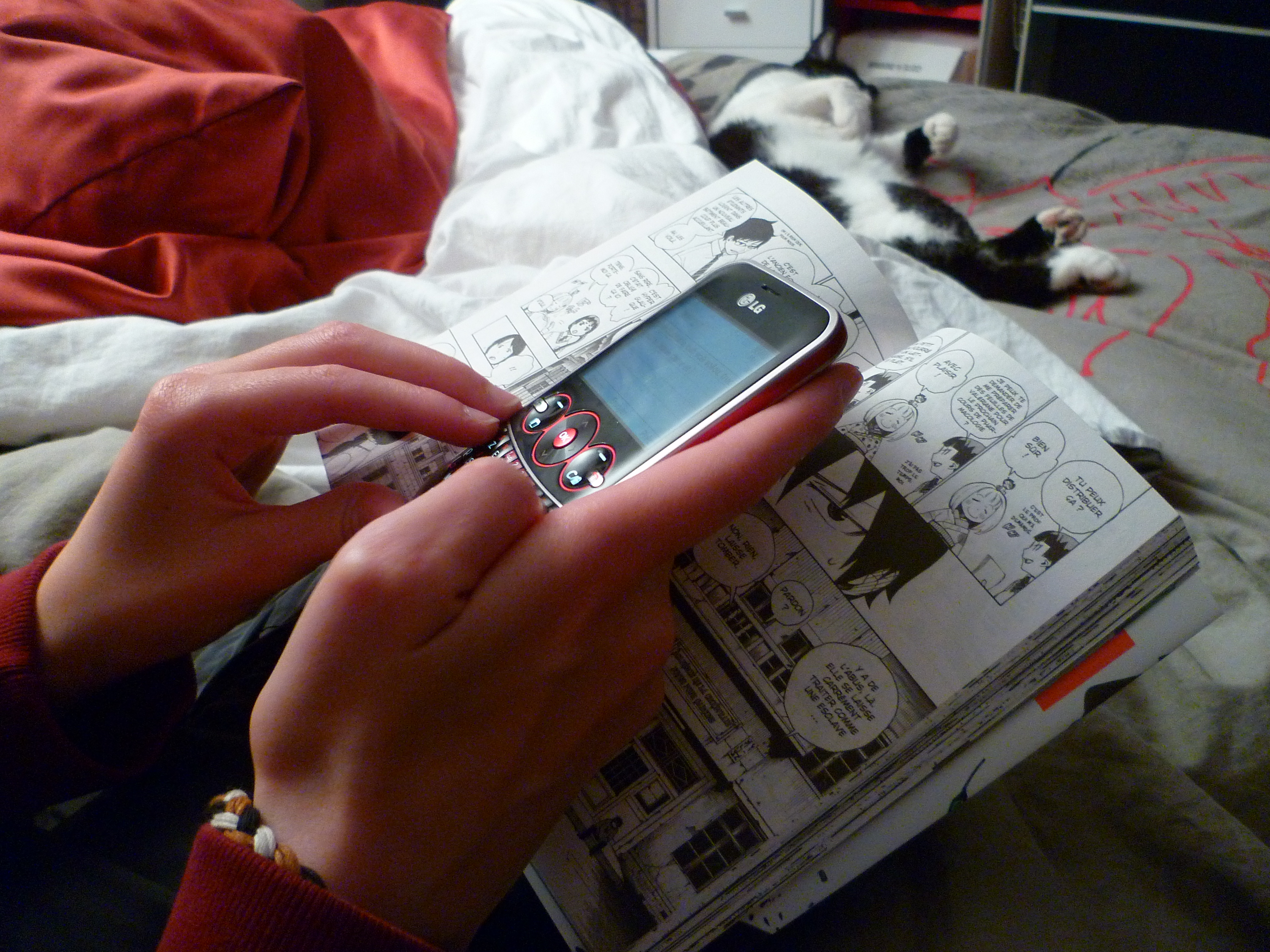 French teenage girl texting while reading Blue Exorcist (青の祓魔師) by Kazue Kato.